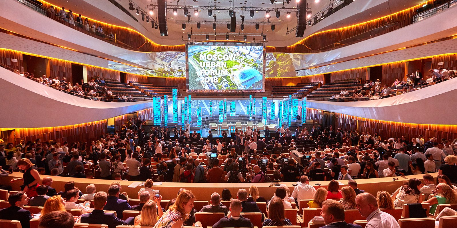 Zaryadye Concert Hall